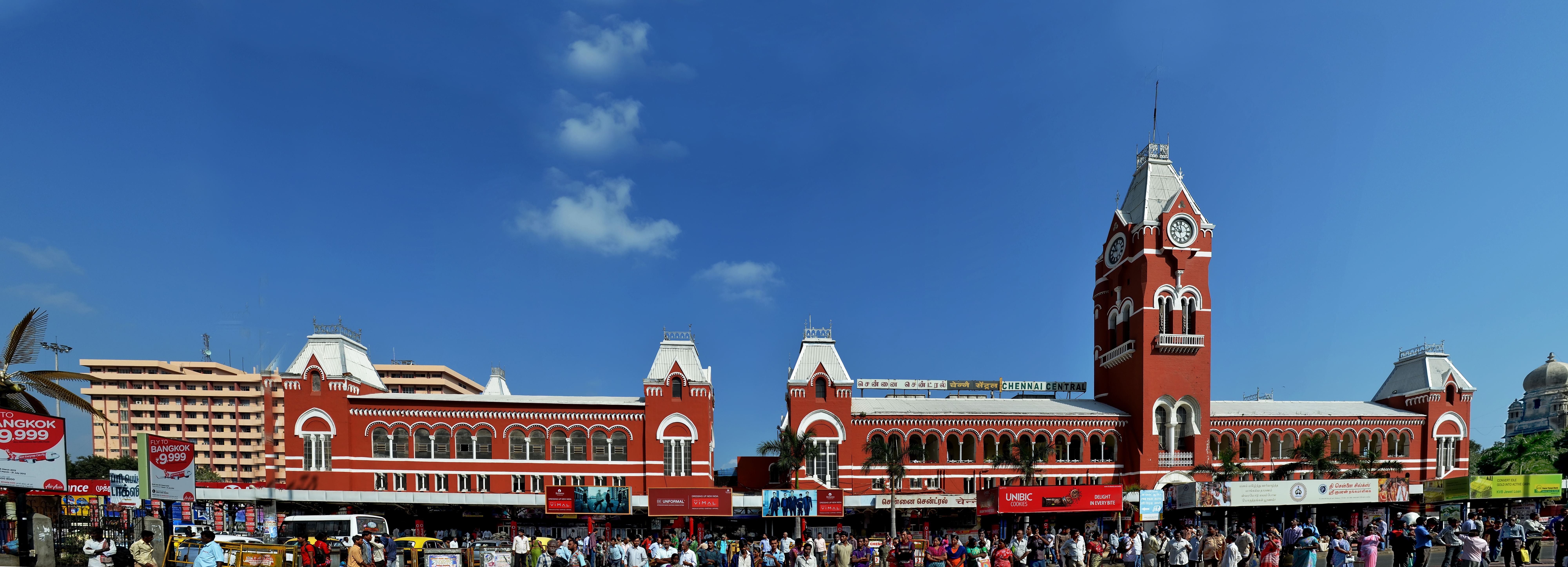 The main entrance of the station